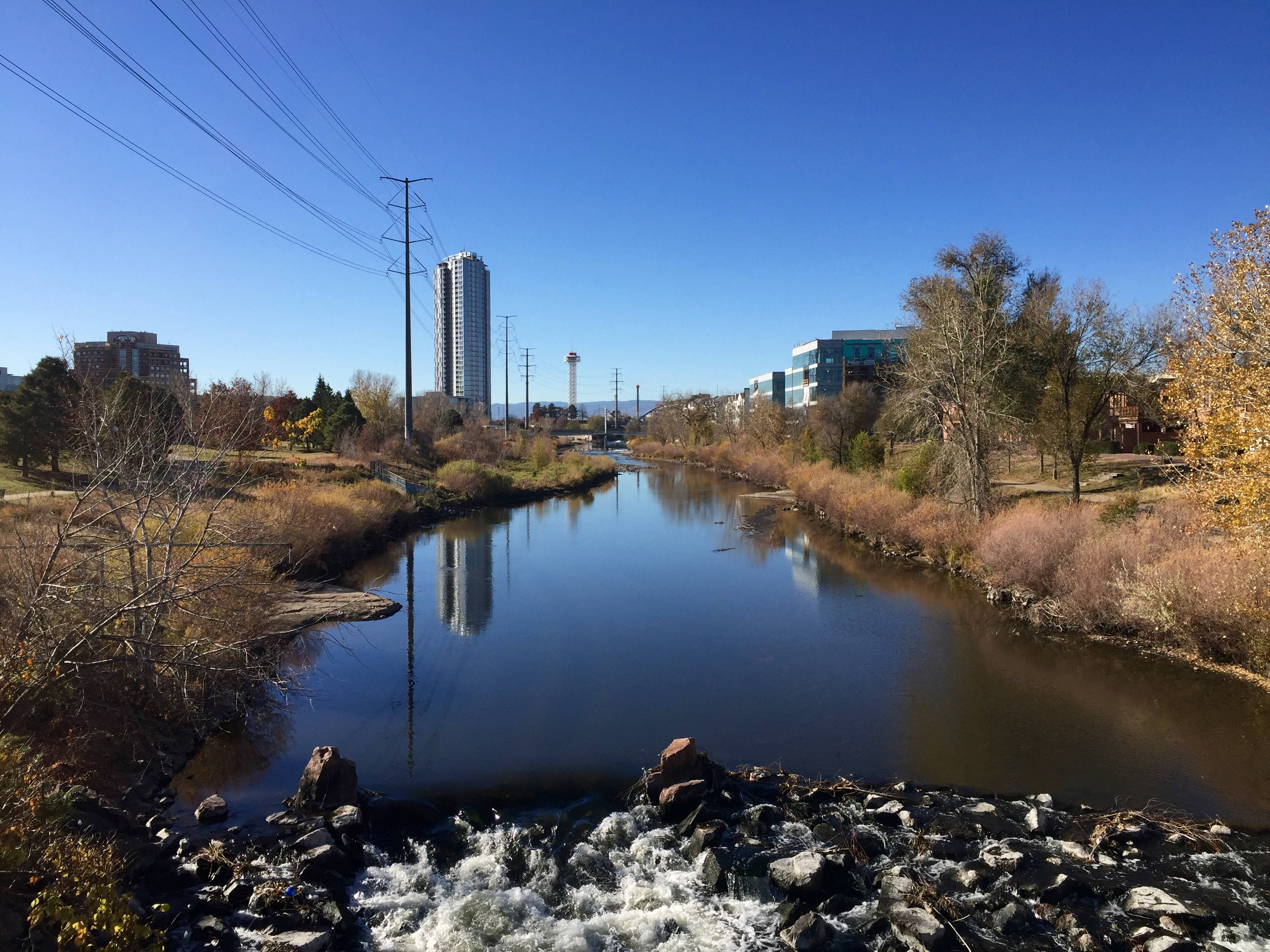 South Platte River in Denver, Colorado. Photo taken from 19th Street Bridge, looking south-west.